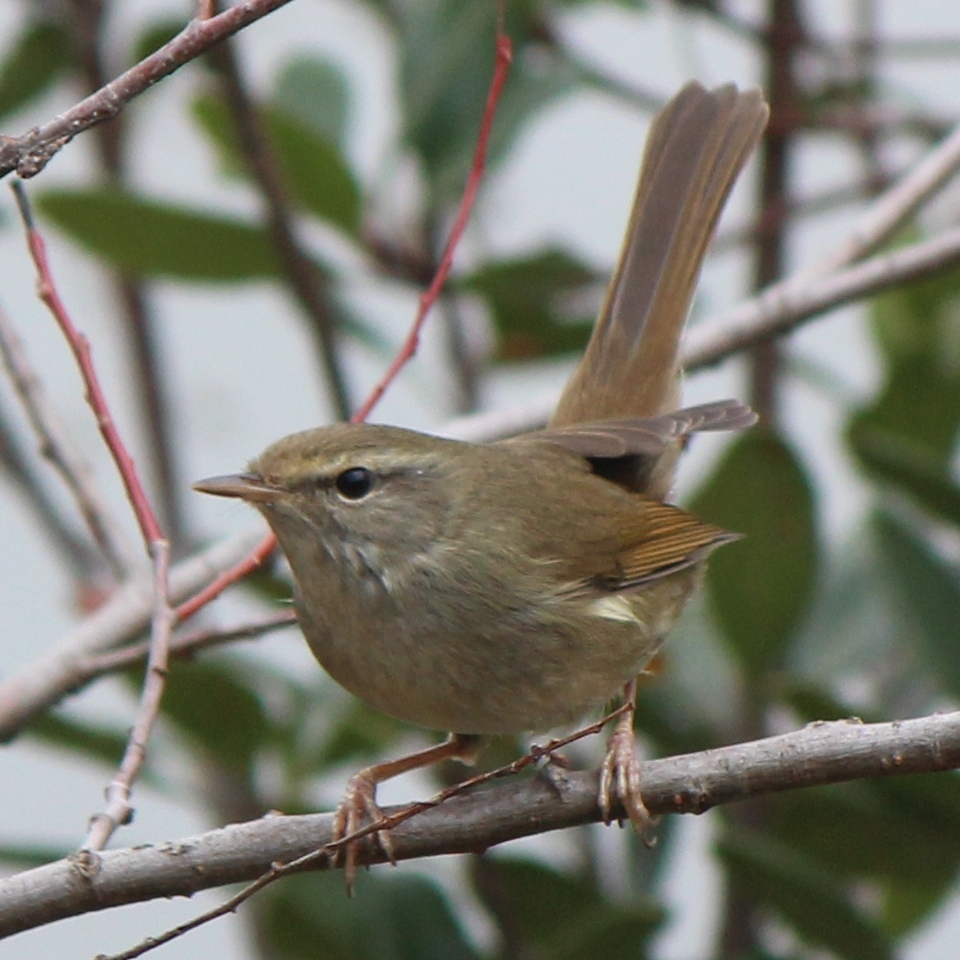 Cettia diphone cantans (Japanese Bush Warbler) on branch in Japan.